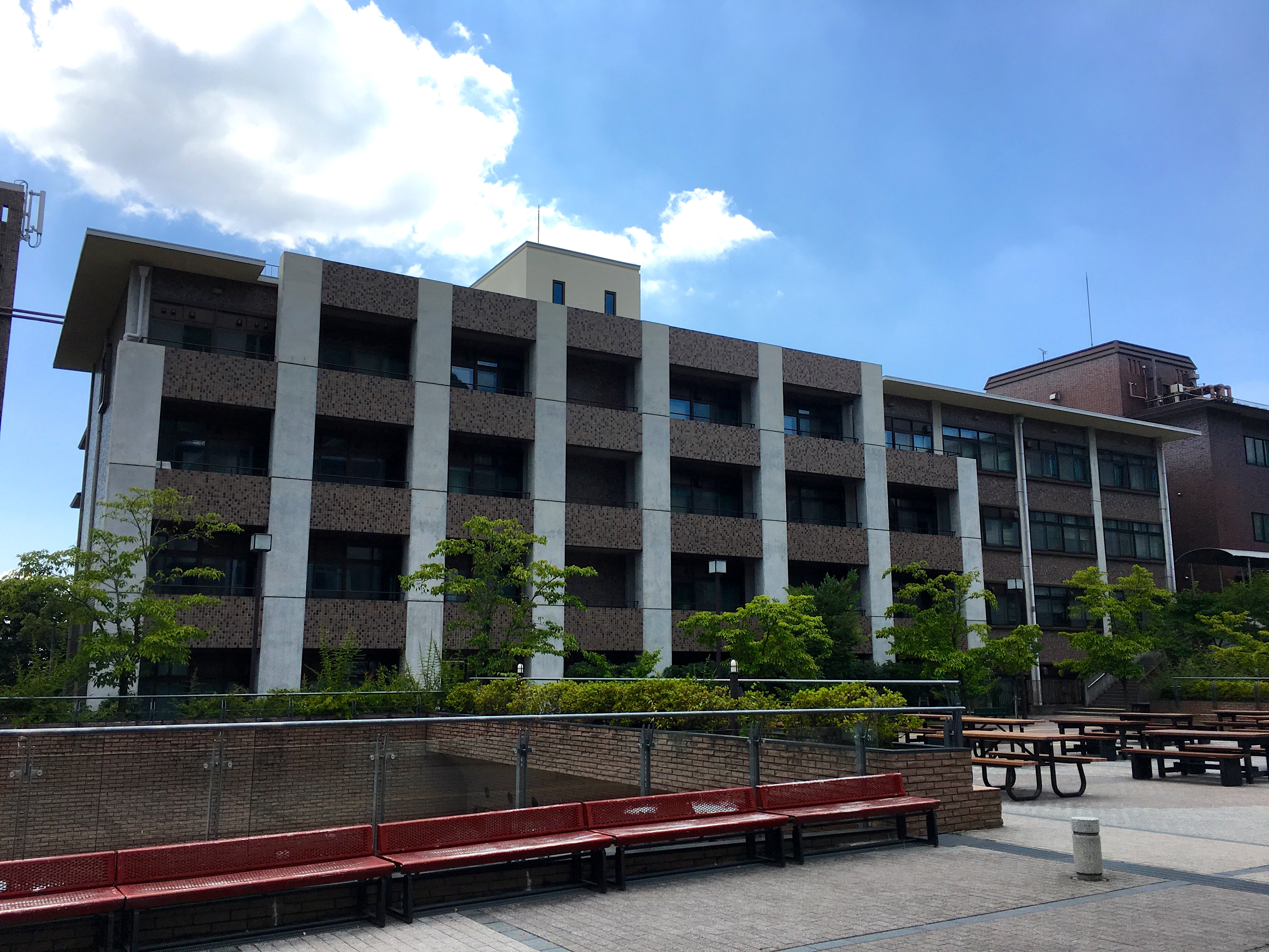 Jinshinkan Hall at Kinugasa Campus of Ritsumeikan University in Kyoto, Japan